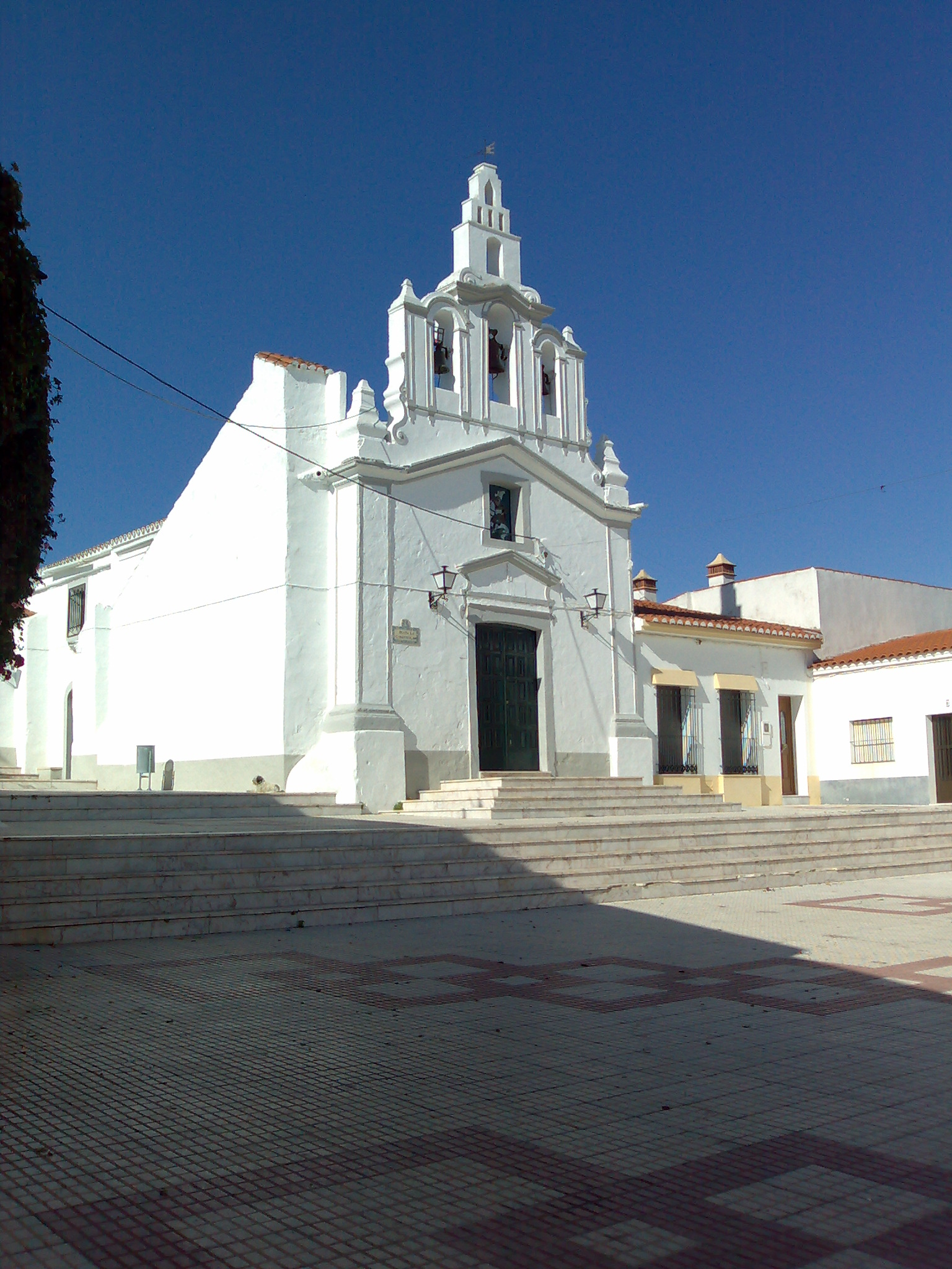 São Jorge da Lor (Olivença)